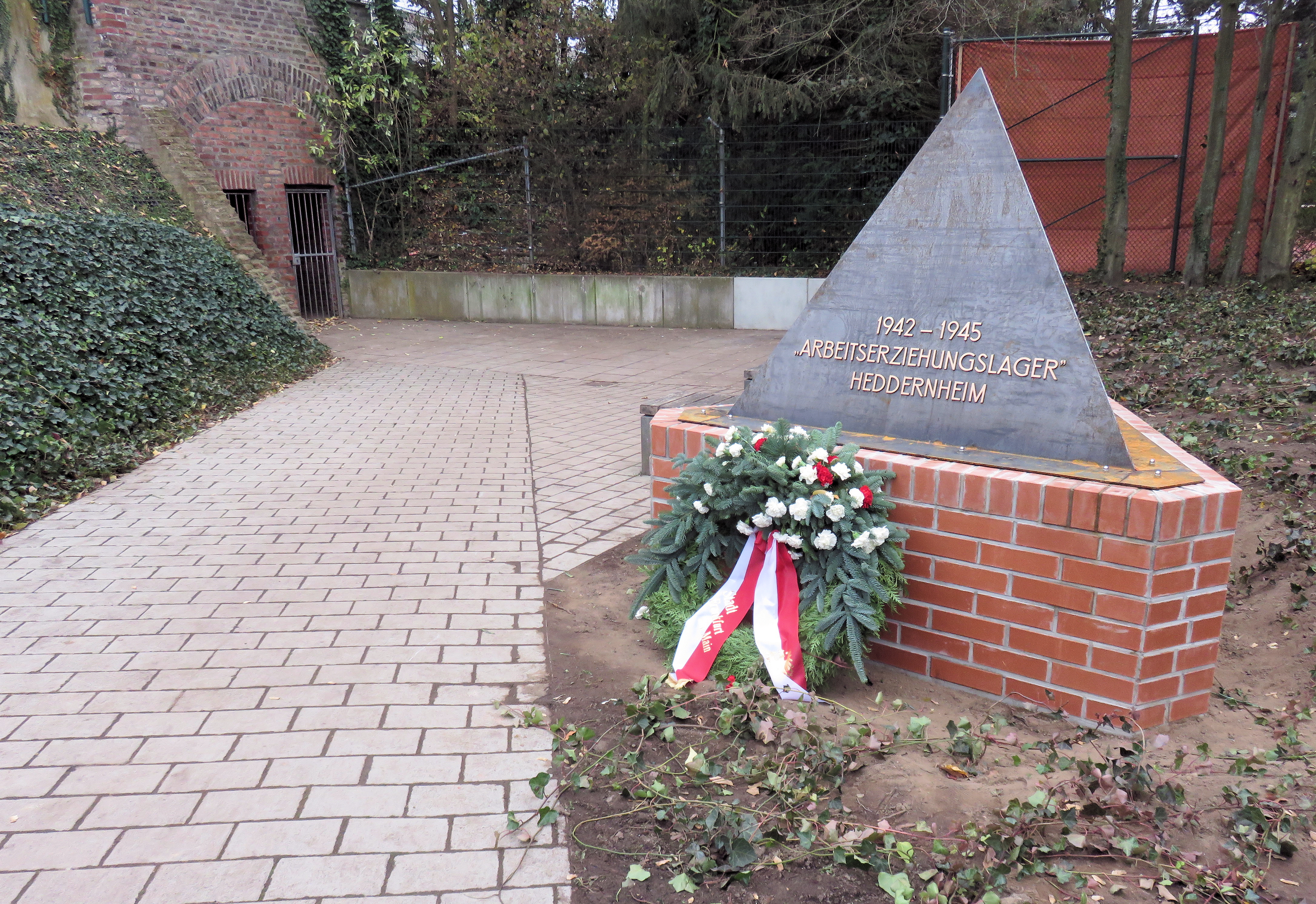 Frankfurt-Heddernheim concentration camp "Arbeitserziehungslager Heddernheim", memorial place. The function of the adit entrance during Nazi time is unclear. It might have been a shelter tunnel.